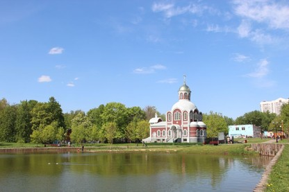 The first preliminary visualization of the location of the Temple of the Holy Martyr Benjamin of Petrograd in Suzin